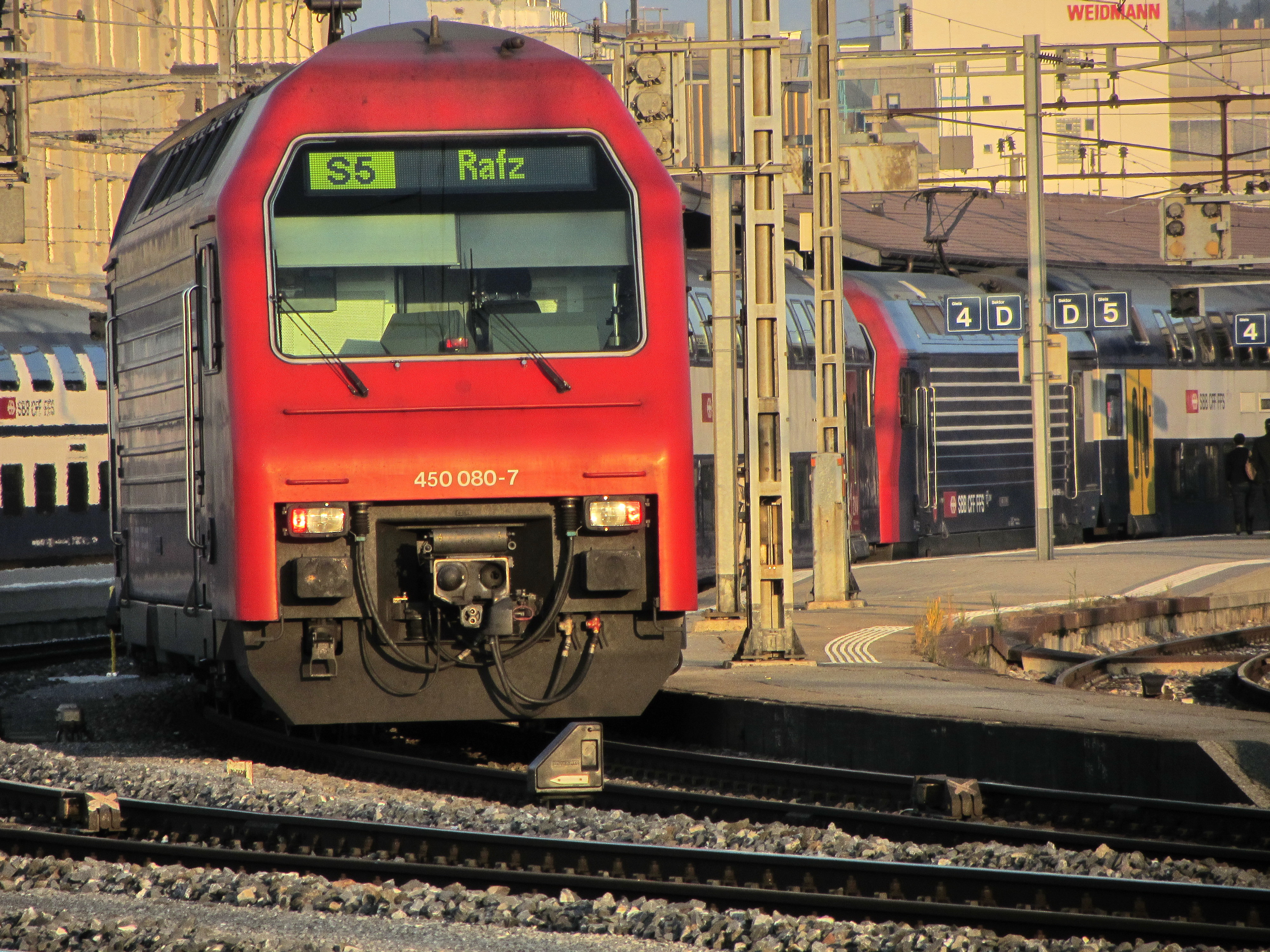 SBB Re 450 of the S-Bahn Zürich's S5 line at the train station in Rapperswil (Switzerland), Seedamm to the left.